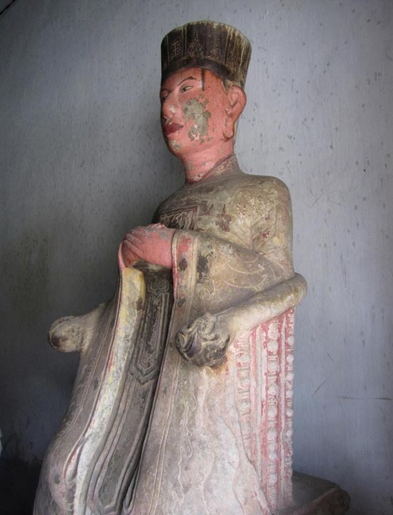 Statue of Emperor Mạc Tuyên Tông (莫福宗, ? - 1561) at Trung Hành Pagoda, Đằng Lâm Ward, Hải An District, Hải Phòng City. It was made in the XVI-century.